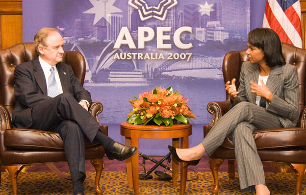 Alejandro Foxley and Condoleezza Rice.